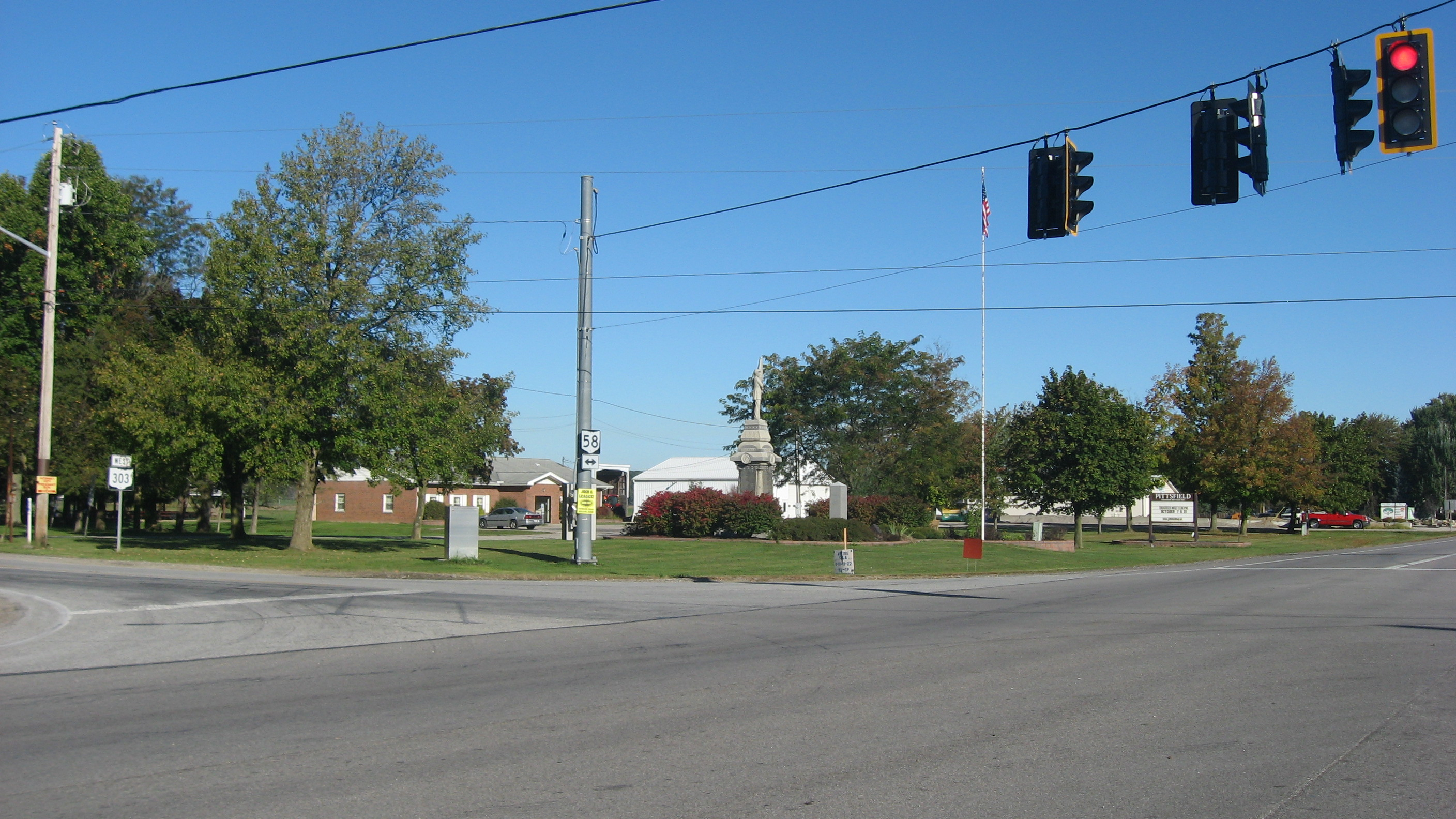 Government buildings and a GAR memorial on the village green at Pittsfield Center, Ohio, United States. Photo is taken at the junction of State Routes 58 and 303.